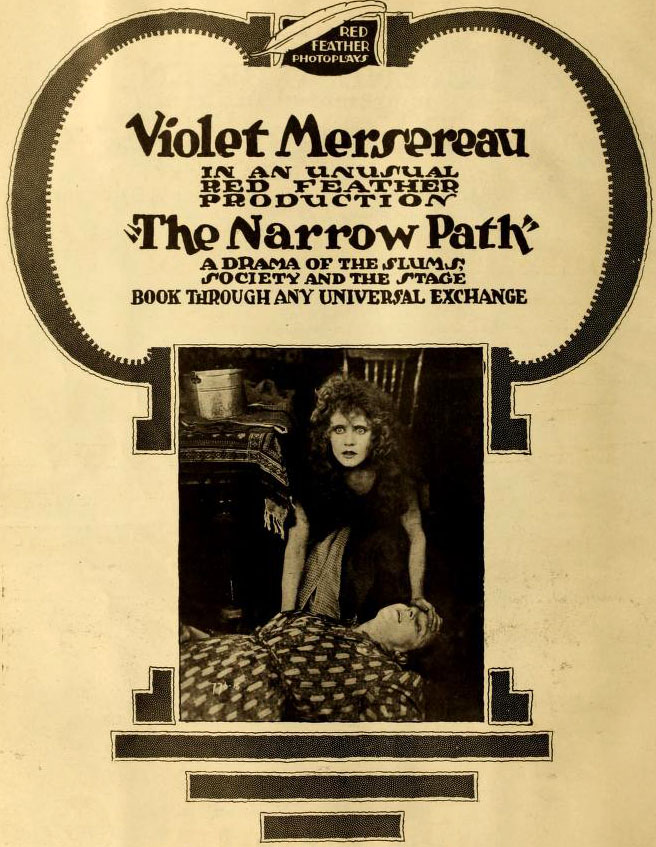 Advertisement in Moving Picture World for the film The Narrow Path (1916).